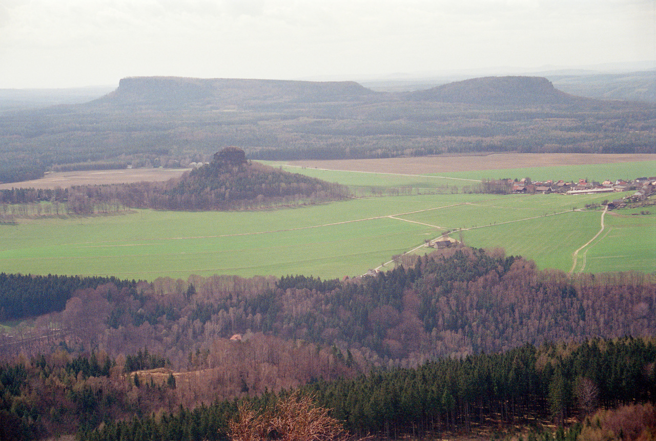 mountains "Zschirnsteine", left the large on, on the right the small one; infront the mountain Zirkelstein, Saxony Switzerland, Germany